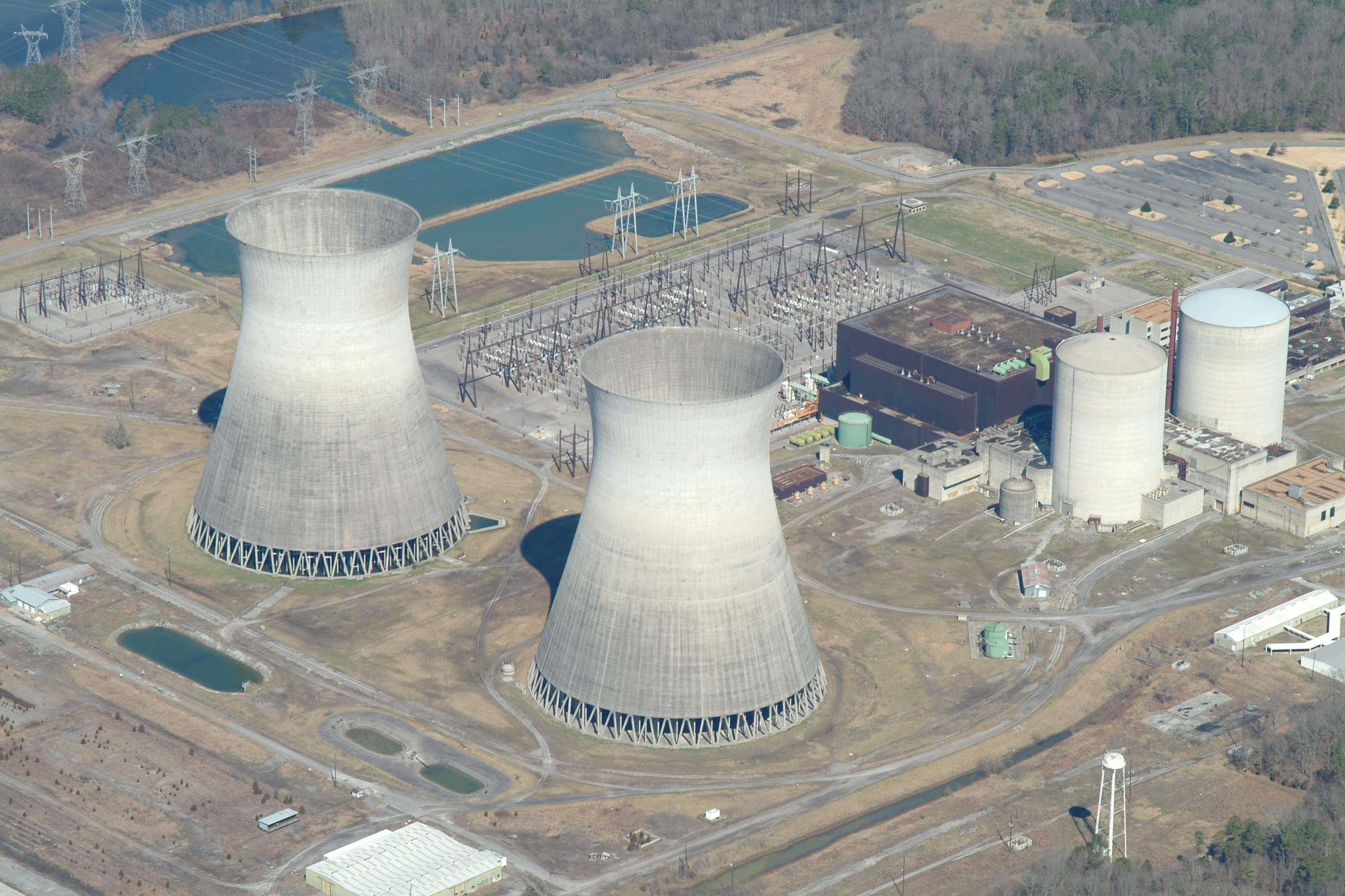 Aerial of the Bellefonte power plant.